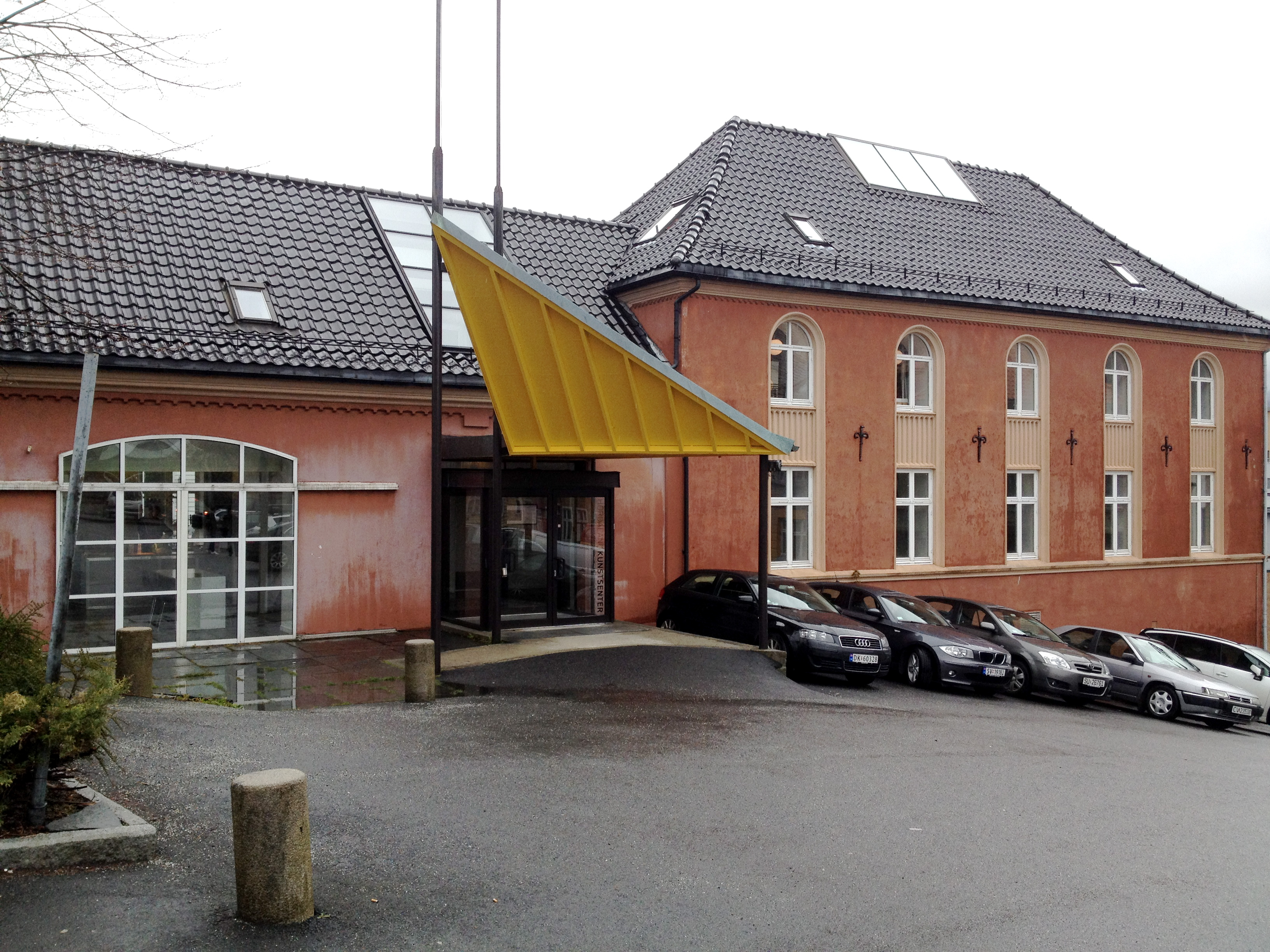 Hordaland kunstsenter in Bergen, Norway